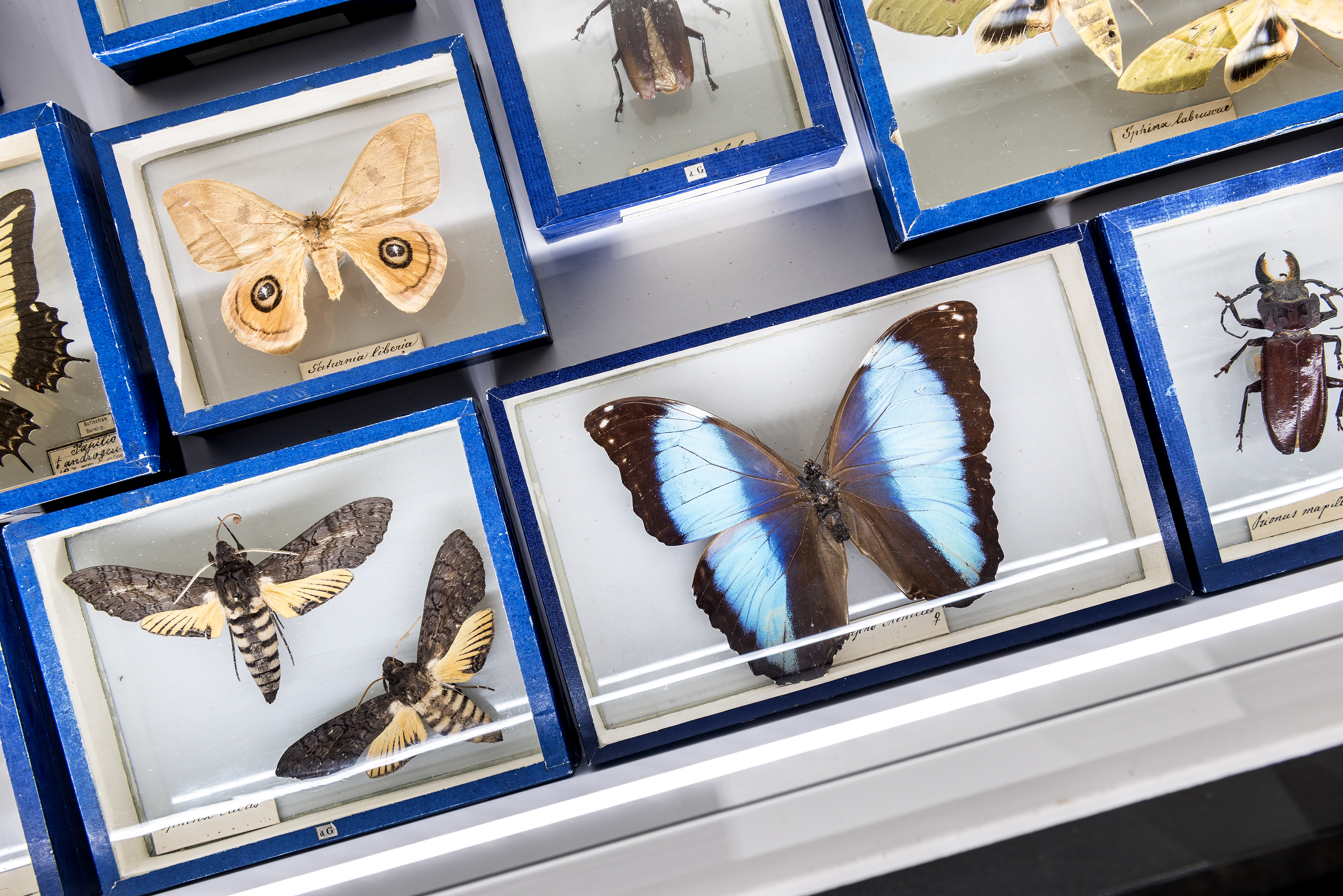 Merian– Location: Museum Wiesbaden